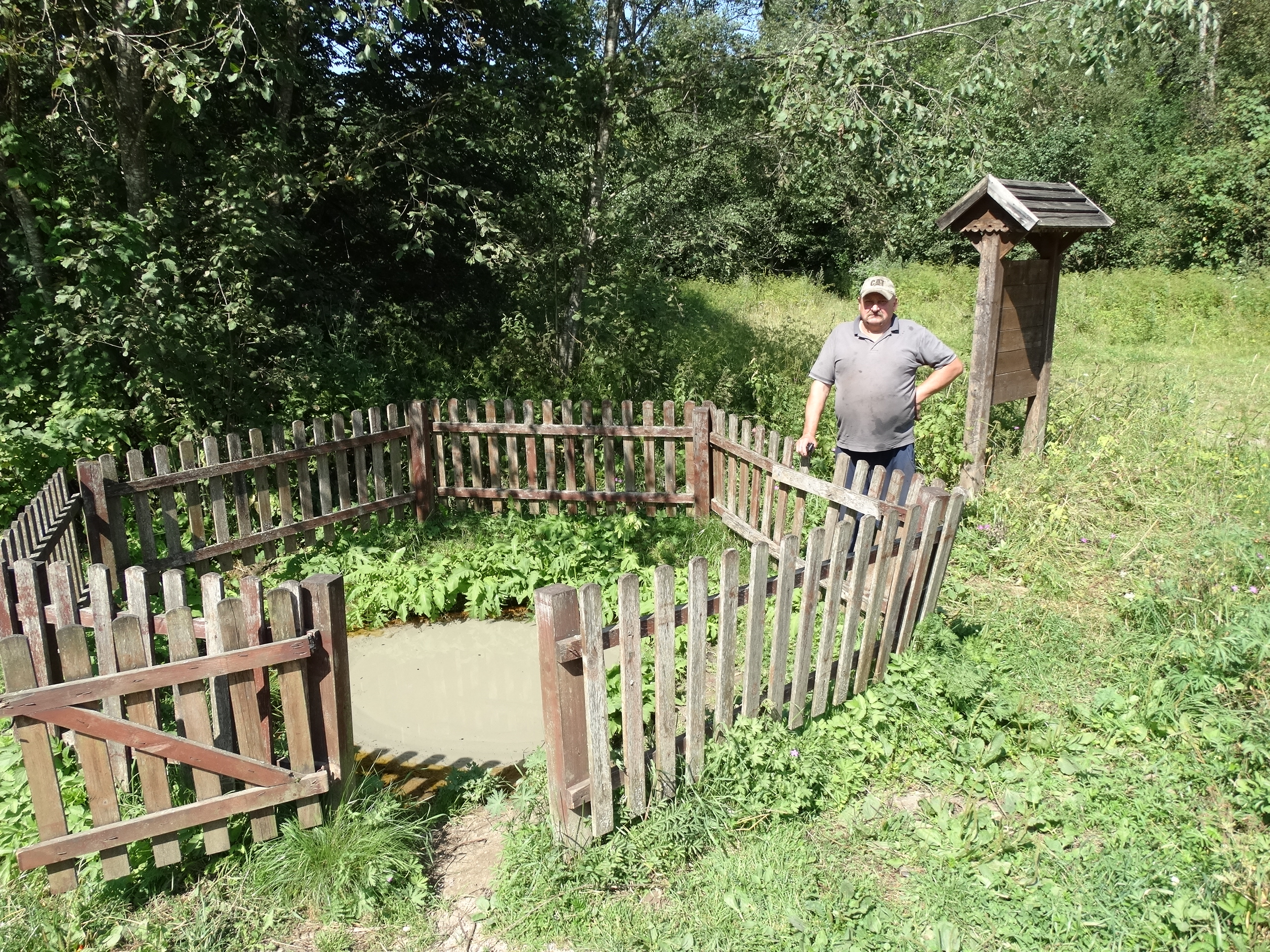 Žuvintė spring, Ukmergė District, Lithuania